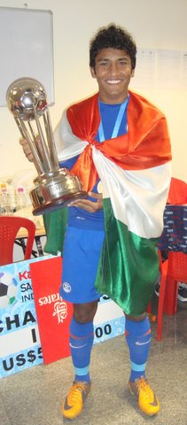 Nirmal Chettri (born 21 October 1990) is an Indian professional footballer who plays for East Bengal.